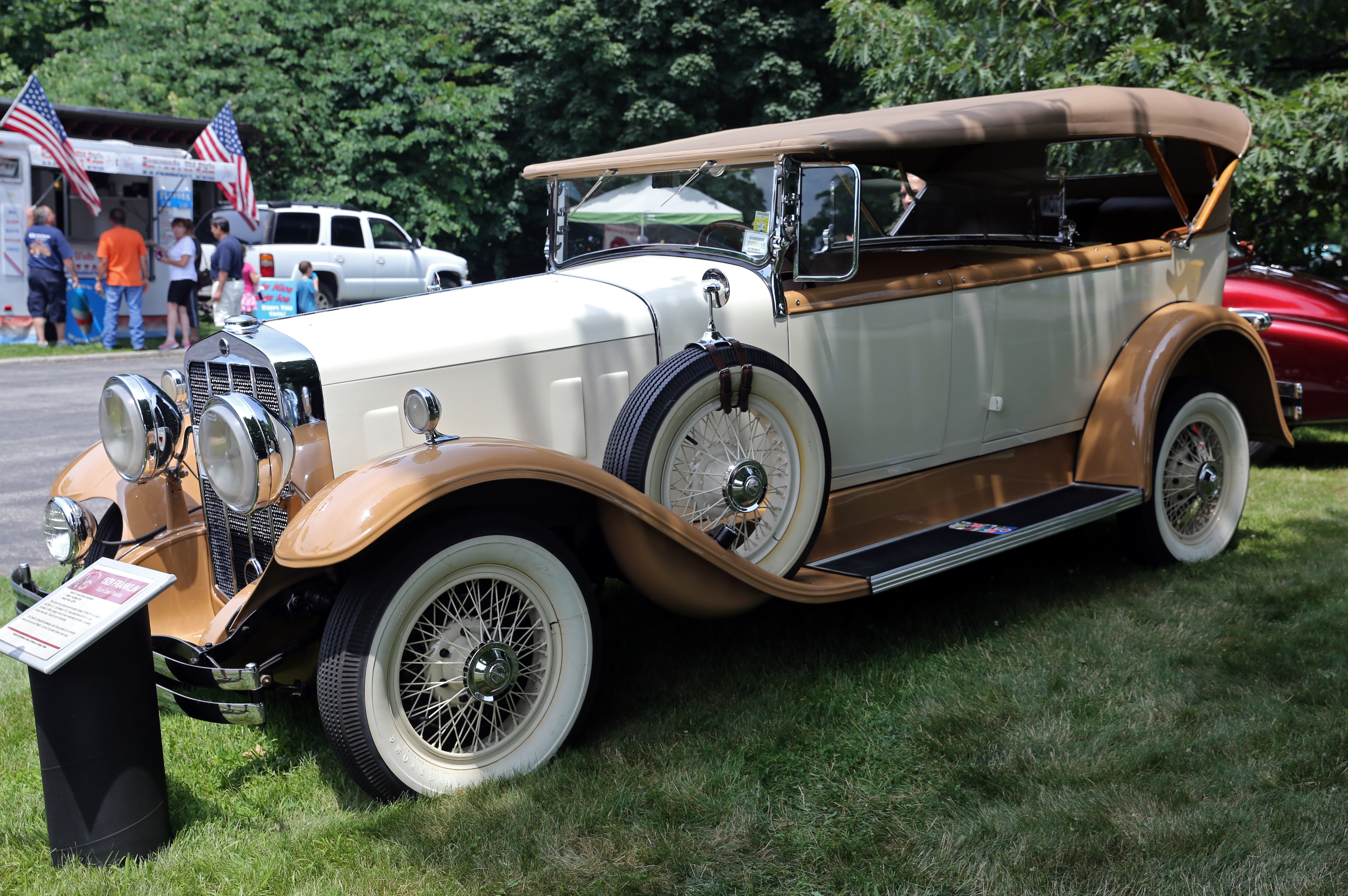 1929 Franklin Model 137 5-passenger Sport Touring - better known as the Dual Cowl Phaeton. 60-hp inline-six, $2785 new. Only seven of these still exist, and this one was stored outdoors, 200 metres from the sea in New Jersey for over forty years.